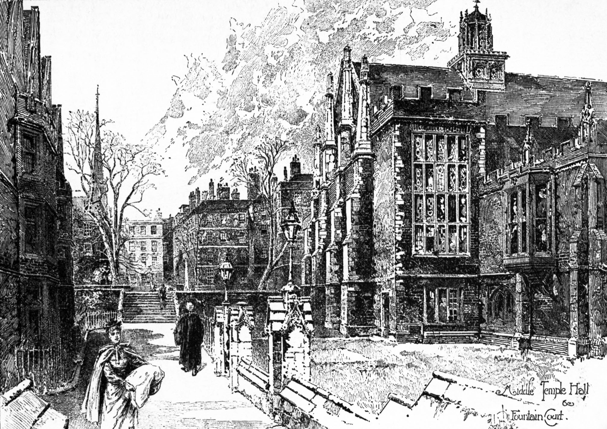 Herbert Railton's illustration of Middle Temple Hall and Fountain Court